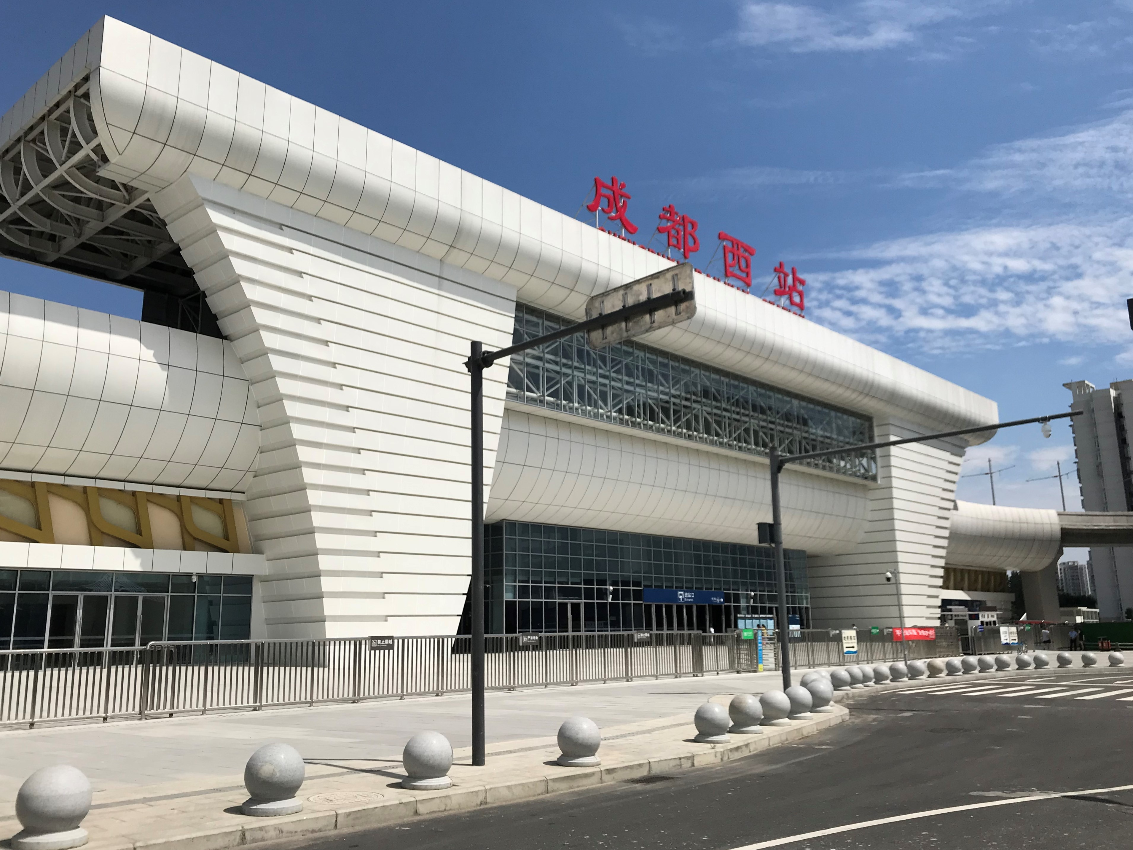 With the CR Chengdu Fence Still